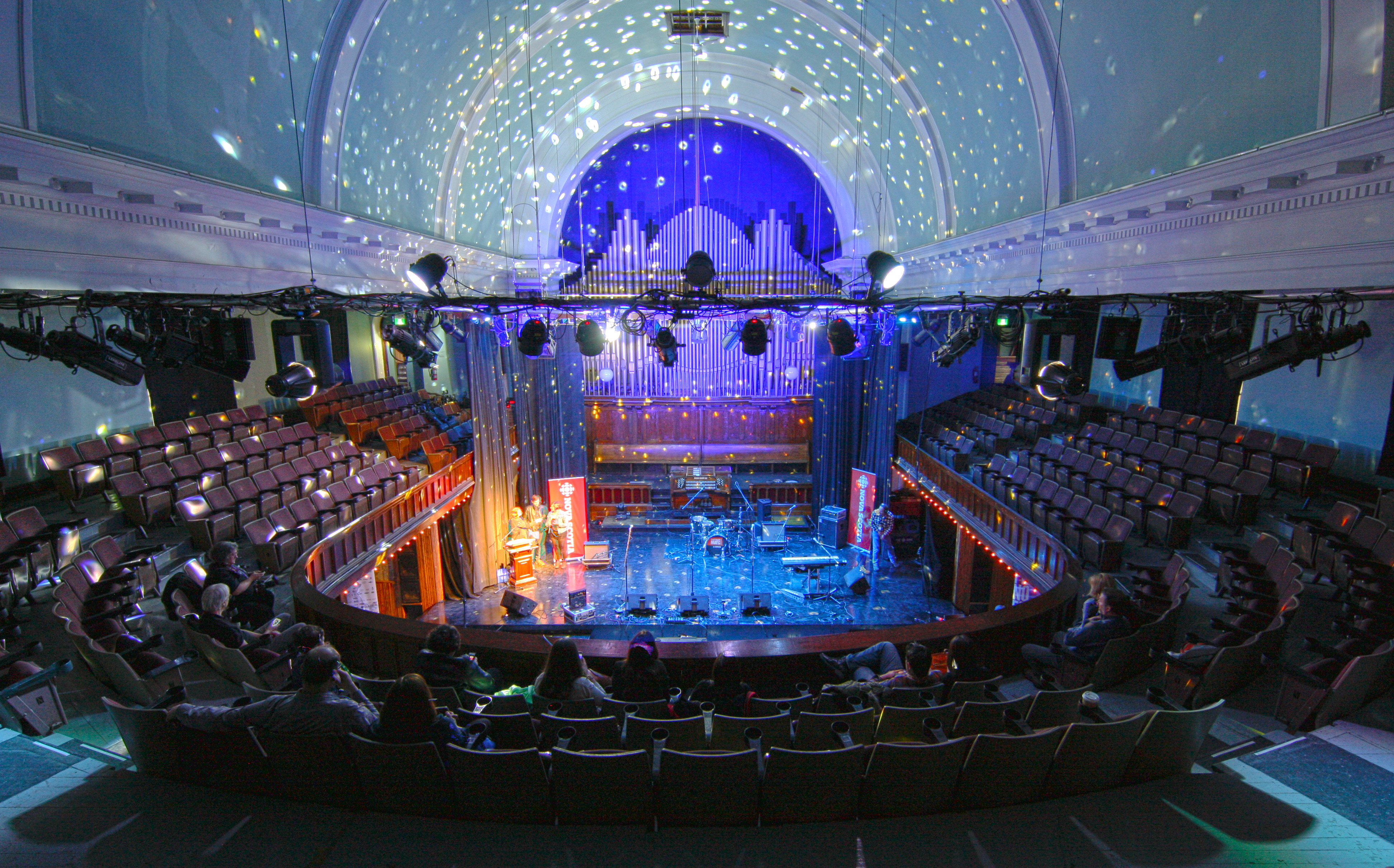 Highland Arts Theatre Balcony, showing the Acoustic Barrel Vaulted Ceiling above the Lighting Grid. The Highland Arts Theatre is a historic building, first constructed as a Presbyterian Church, now operating an arts and culture centre in Sydney, Cape Breton Regional Municipality, Nova Scotia, Canada. It was initially constructed as St. Andrew's Presbyterian Church. In 2014 St. Andrew's reopened as the Highland Arts Theatre, a live play and film theatre and concert venue located in Sydney's waterfront district.